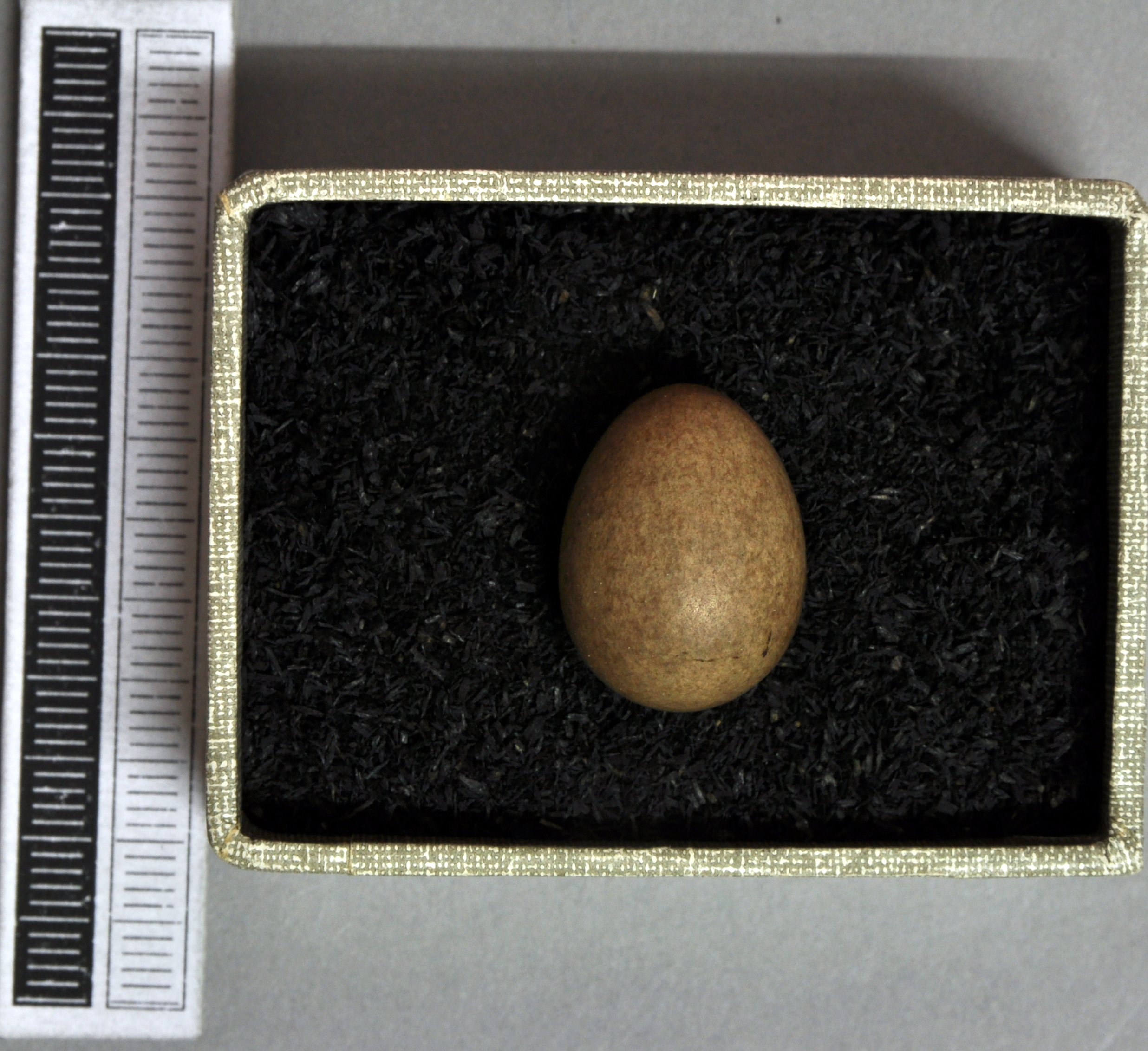 Eurasian rock pipit Anthus petrosus , egg, Coll. Museum Wiesbaden